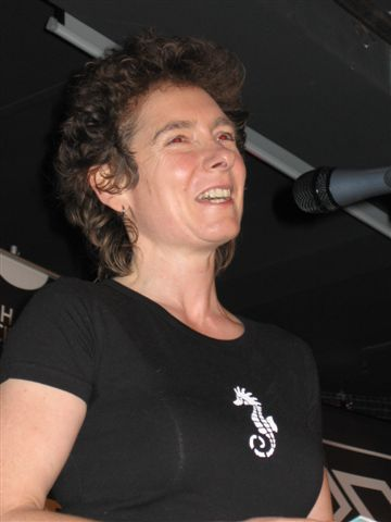 Jeanette Winterson (b. 1959), British writer